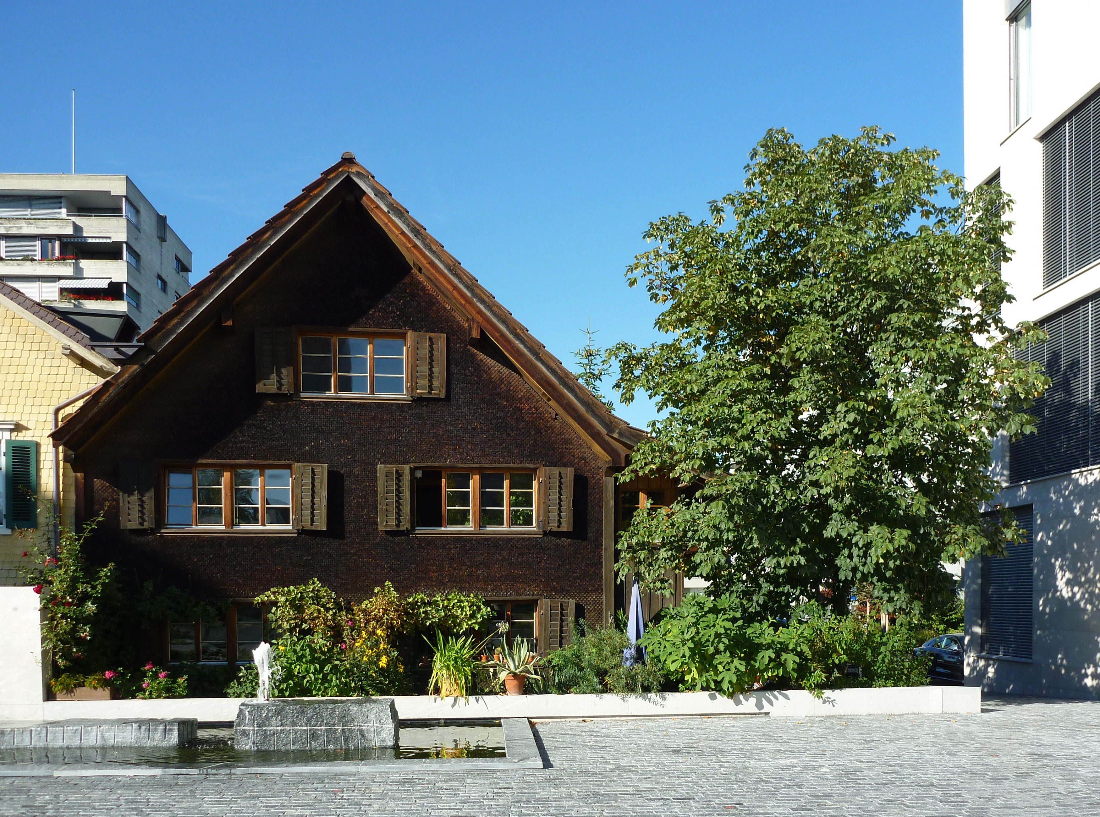 Birth house of Oswald Heer, Oswald-Heer-Gasse 3 in Uzwil